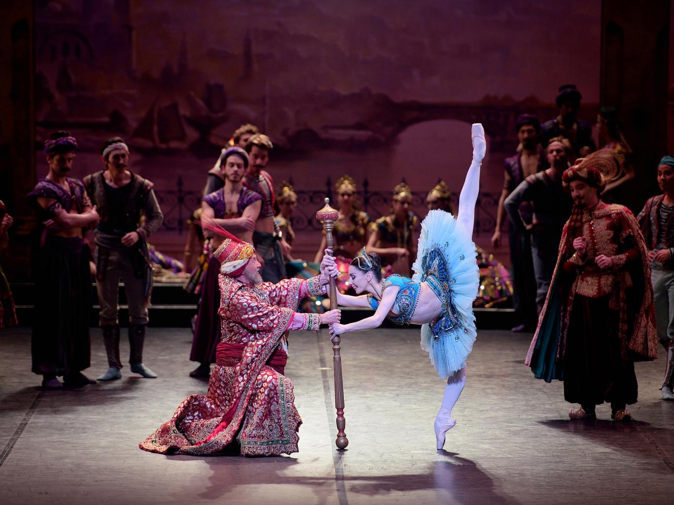 Tamara Rojo as Medora in Le Corsaire